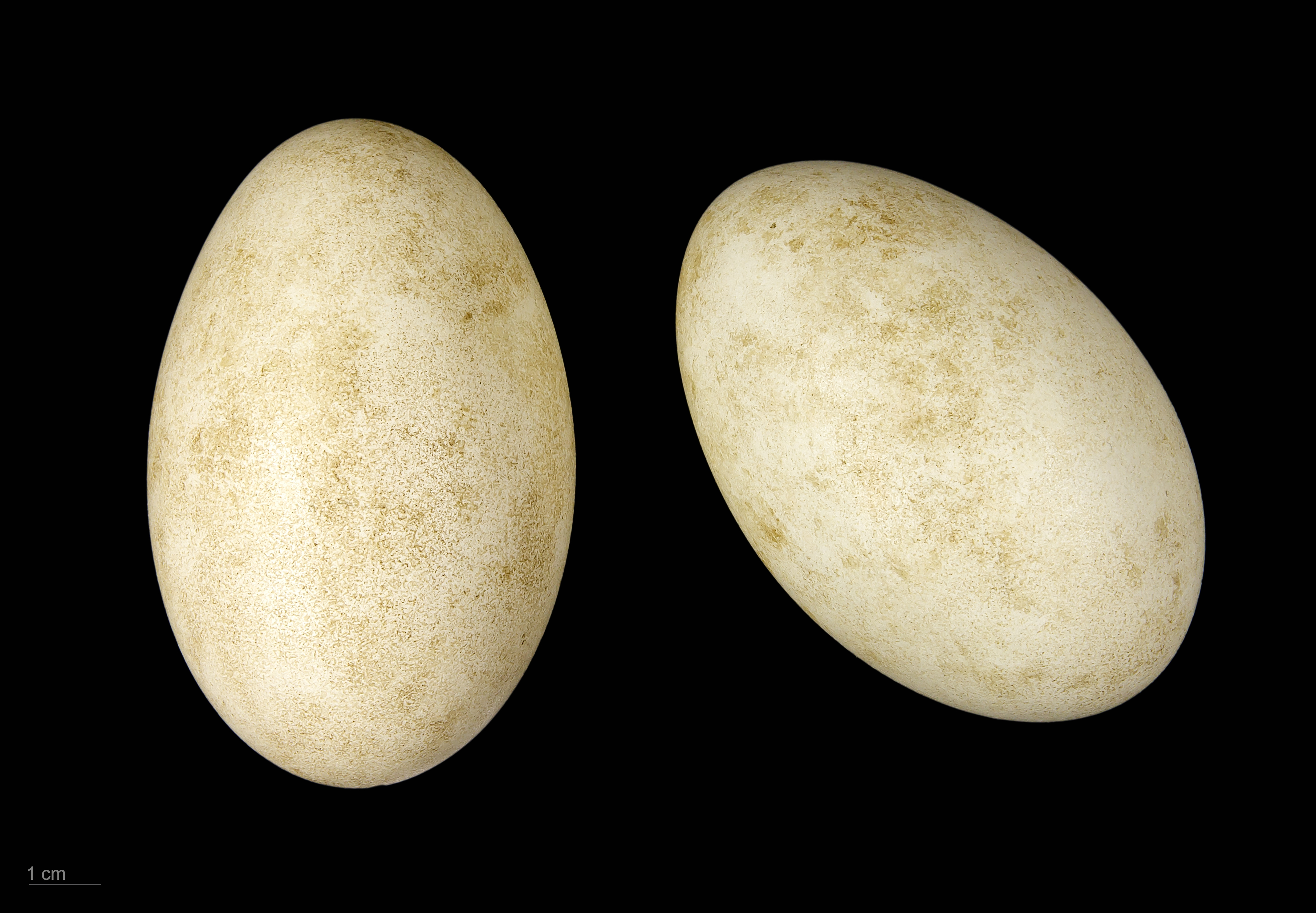 Egg of emperor goose Collection of Jacques Perrin de Brichambaut.